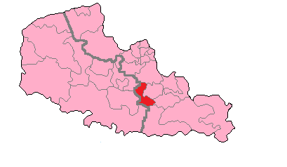 Map of Nord's 17th constituency shown within Nord-Pas-de-Calais